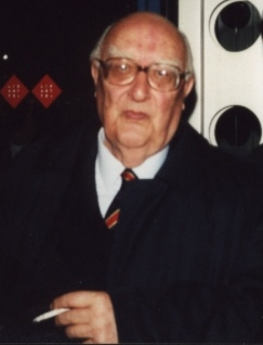 Andrea Camilleri at the Turin Book Fair; photo by Vito Vita